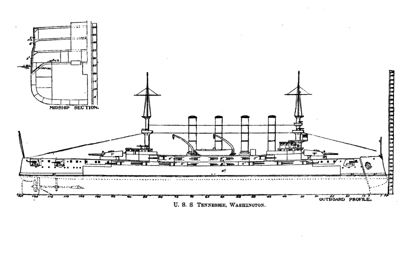 Side and mid-ship section schematic views as submitted by US Navy Bureau of Construction and Repair for Tennessee class armored cruisers